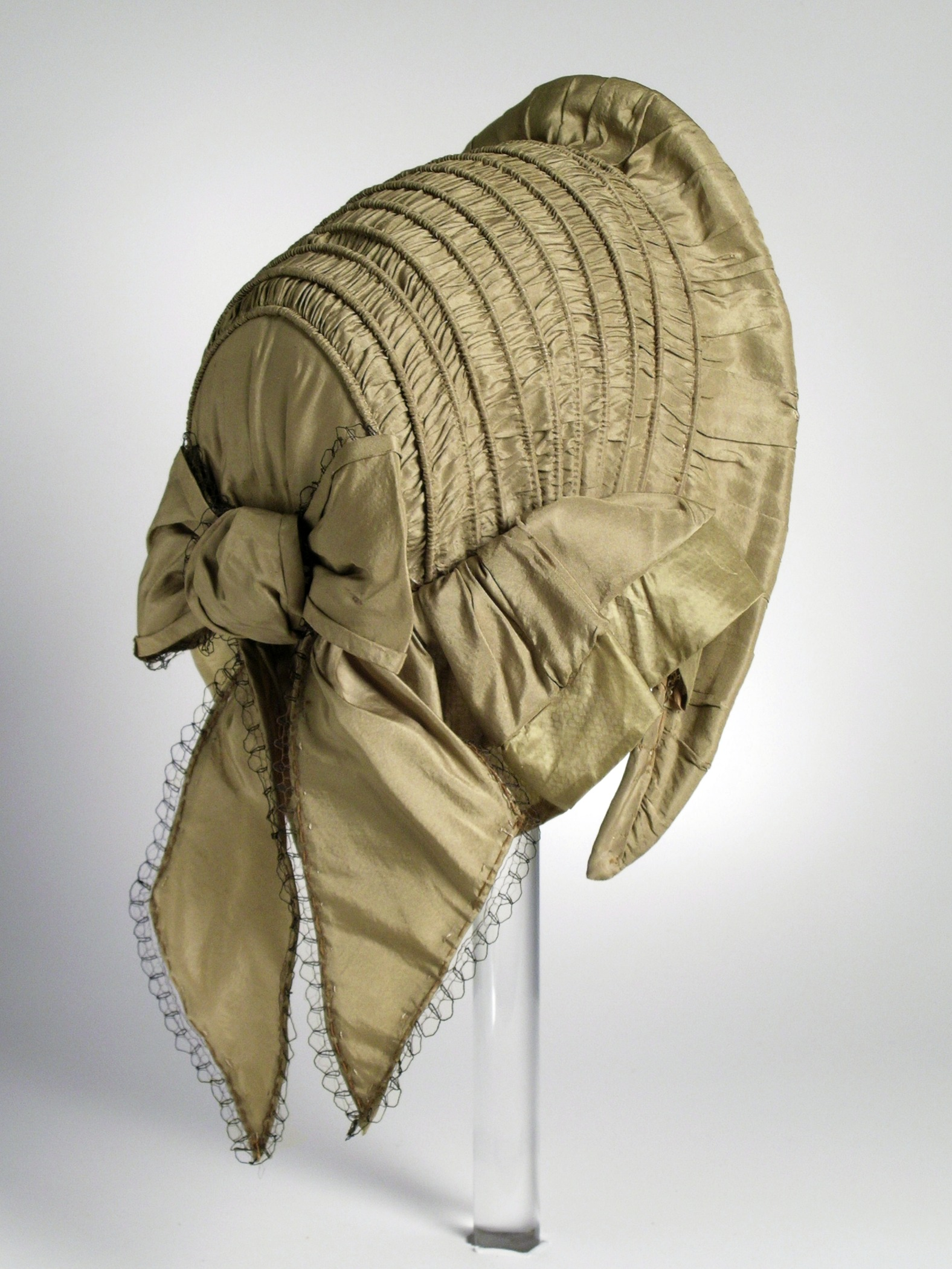 United States, circa 1857 Costumes; Accessories Silk taffeta Gift of Joyce Corbett Winkel (M.85.46) Costume and Textiles